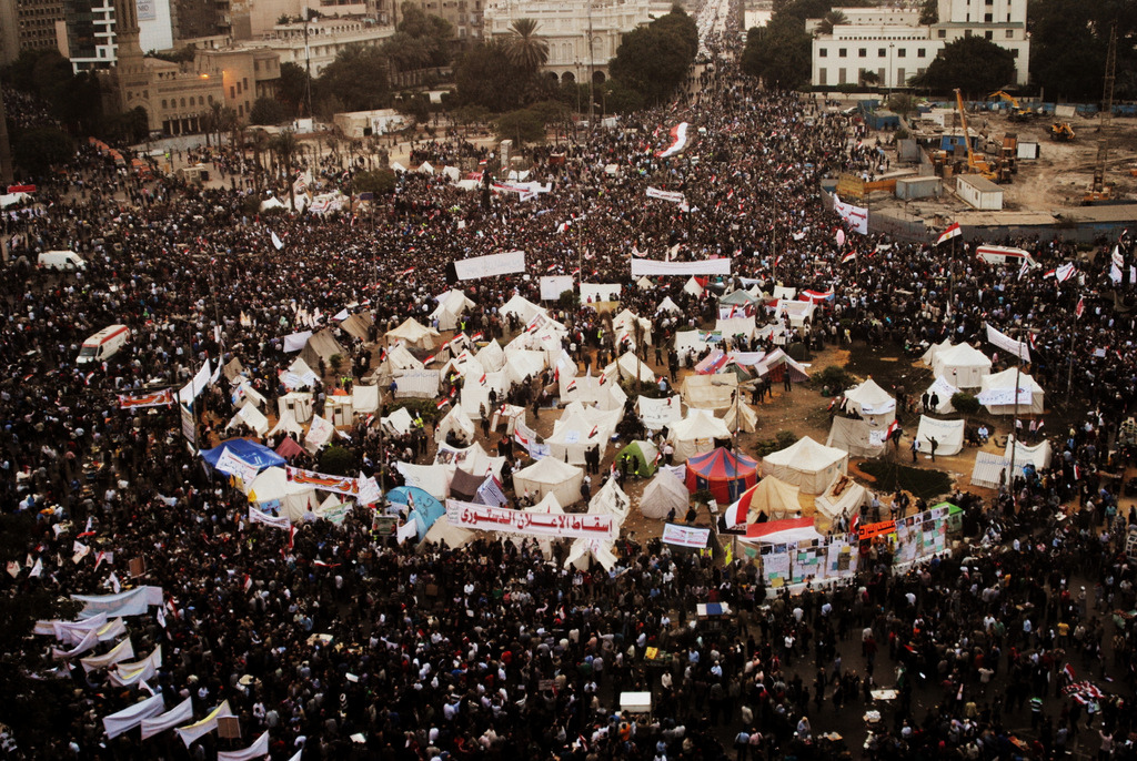 Tahrir Square on Novemeber 27th